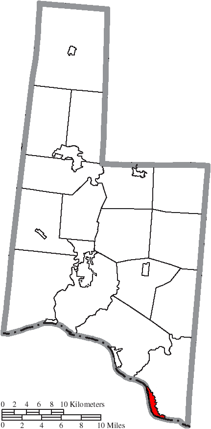 Map of the municipal and township boundaries of Brown County, Ohio, United States, as of the 2000 census, with the location of the village of Aberdeen highlighted. Township borders are shown only in unincorporated areas in order to differentiate incorporated and unincorporated areas more clearly.